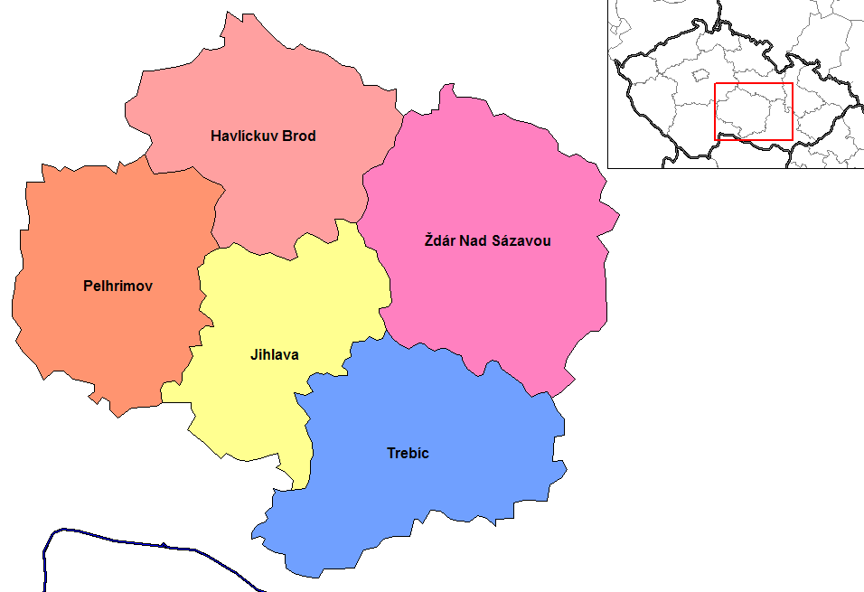 Map of the districts of Vysocina region of the Czech Republic. Created by Rarelibra 15:30, 2 January 2007 (UTC) for public domain use, using MapInfo Professional v8.5 and various mapping resources.